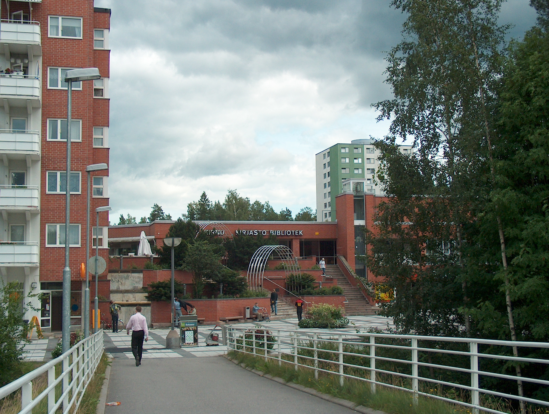 Library in Koivukylä, located in the Havukoski district of the Koivukylä major district, Vantaa.